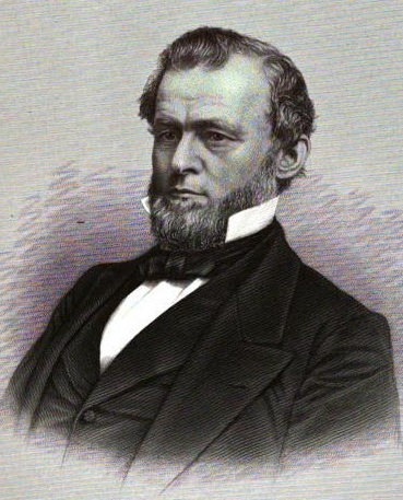 Trenor William Park